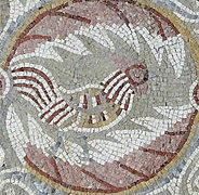 Part of a mosaic showing rooters in the Archaeological Park of Madaba, Jordan